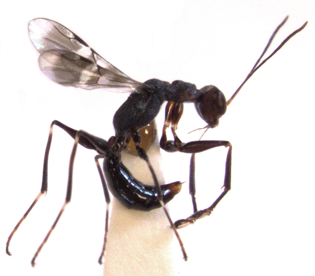 adult female Dryinus koebelei, wing length about 2.8 mm